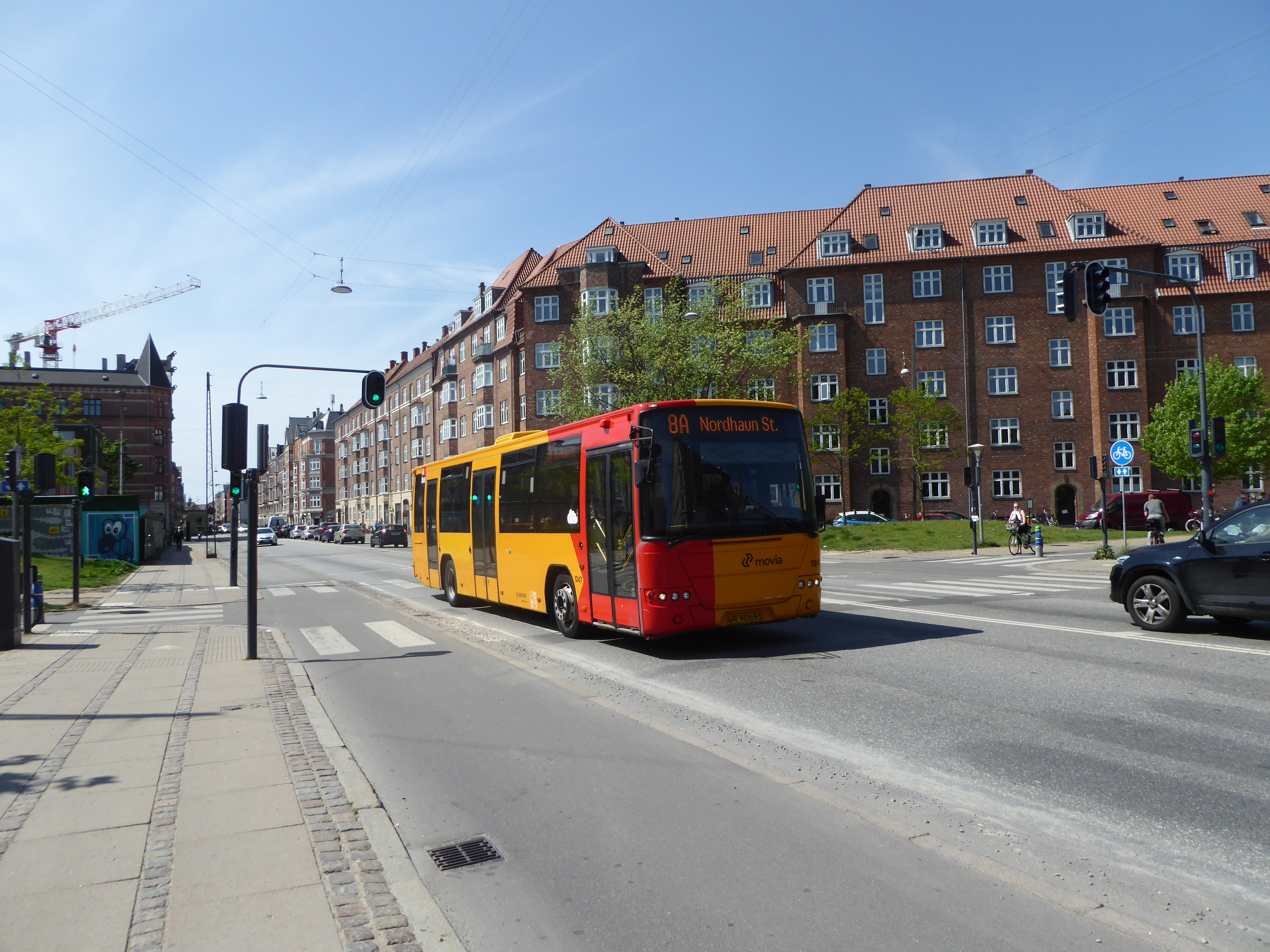 Movia bus line 8A on Jagtvej at Hans Egedes Gade in Nørrebro in Copenhagen.